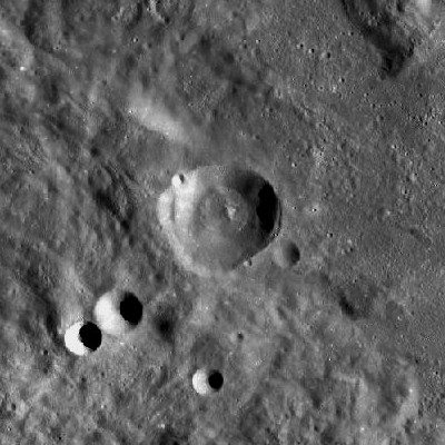 LROC image. Kearons is located inmediately outside northwest Orientale basin rim .